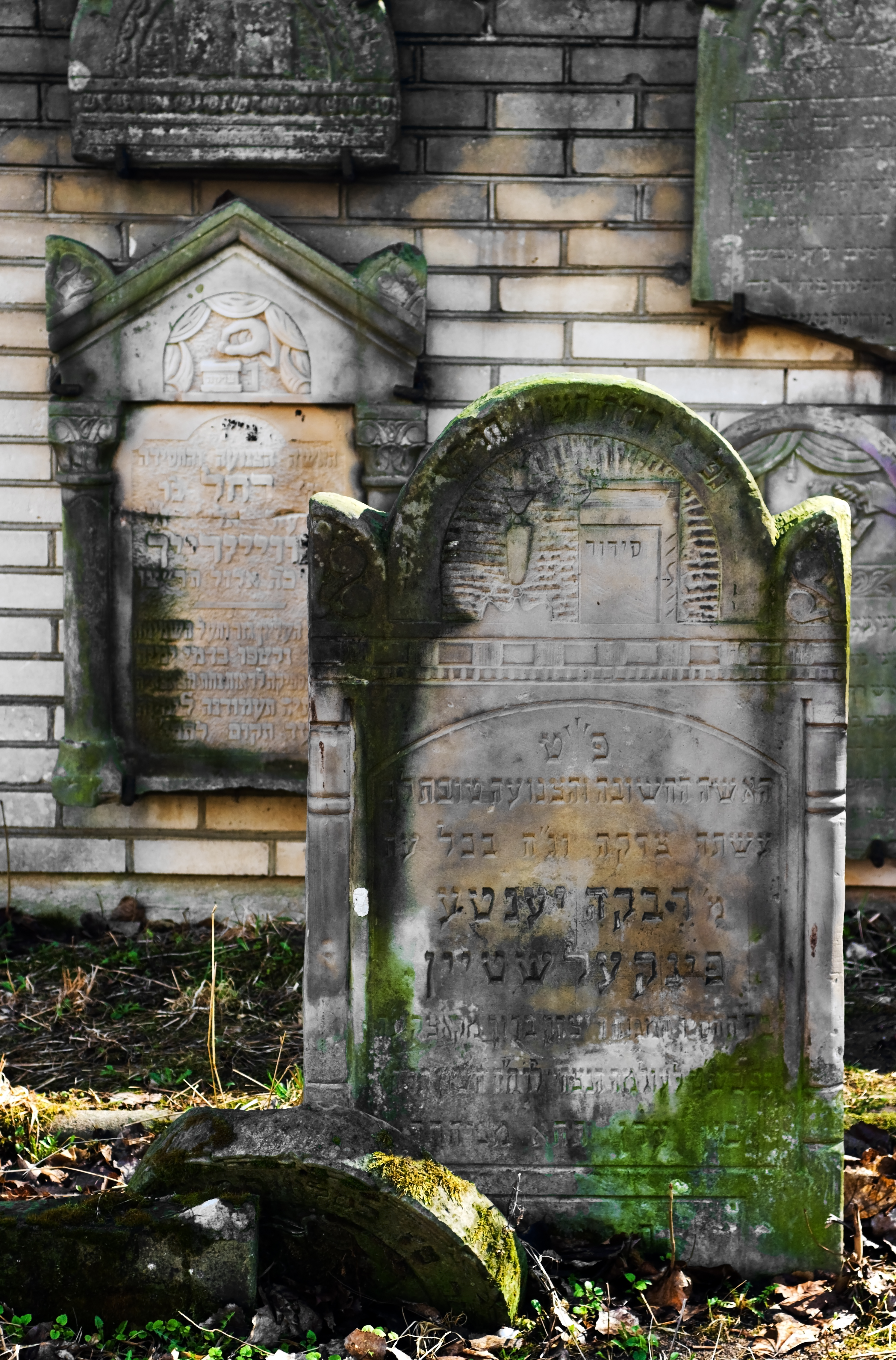 Jewish cemetery in Lubartów - lapidarium.